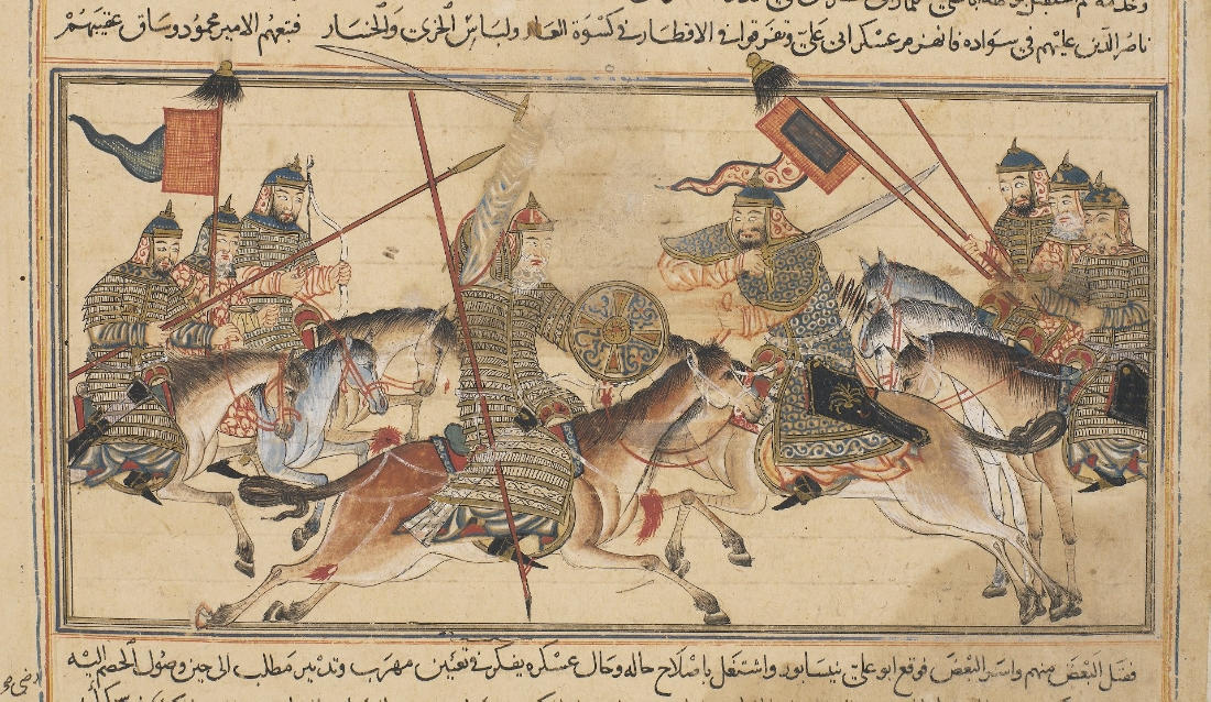 Battle between Mahmud ibn Sebuktegin and Abu Ali ibn Simjuri. This painting is from the book Jami' al-Tawarikh (literally "Compendium of Chronicles" but often referred to as The Universal History or History of the World), by Rashid al-Din, published in Tabriz, Persia, 1307 A.D.